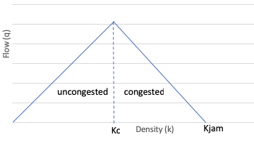 Flow-Density Diagram for a Typical Roadway